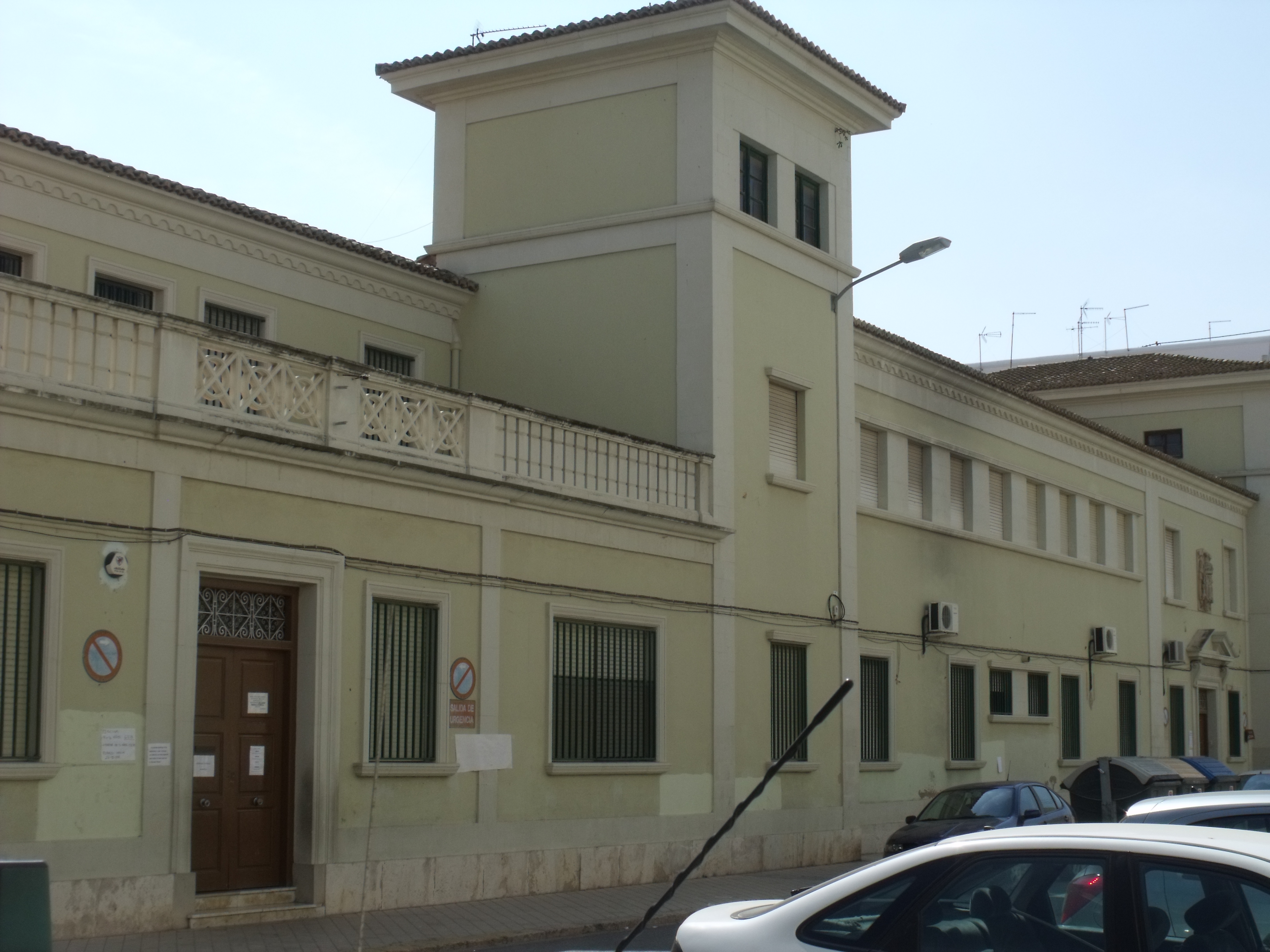 Padre Manjón School, in La Torre neighbourhood, Valencia.